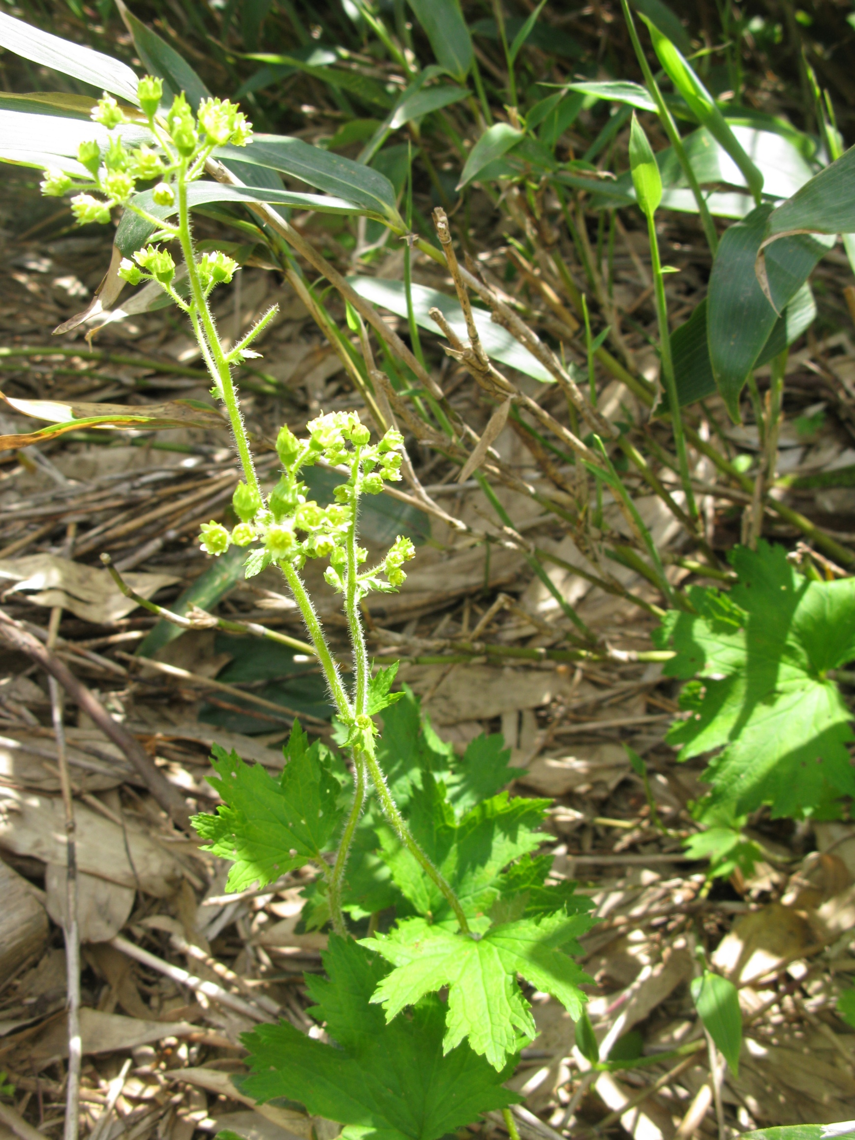 Boykinia lycoctonifolia, Mt. Hiuchigatake, Fukushima pref., Japan